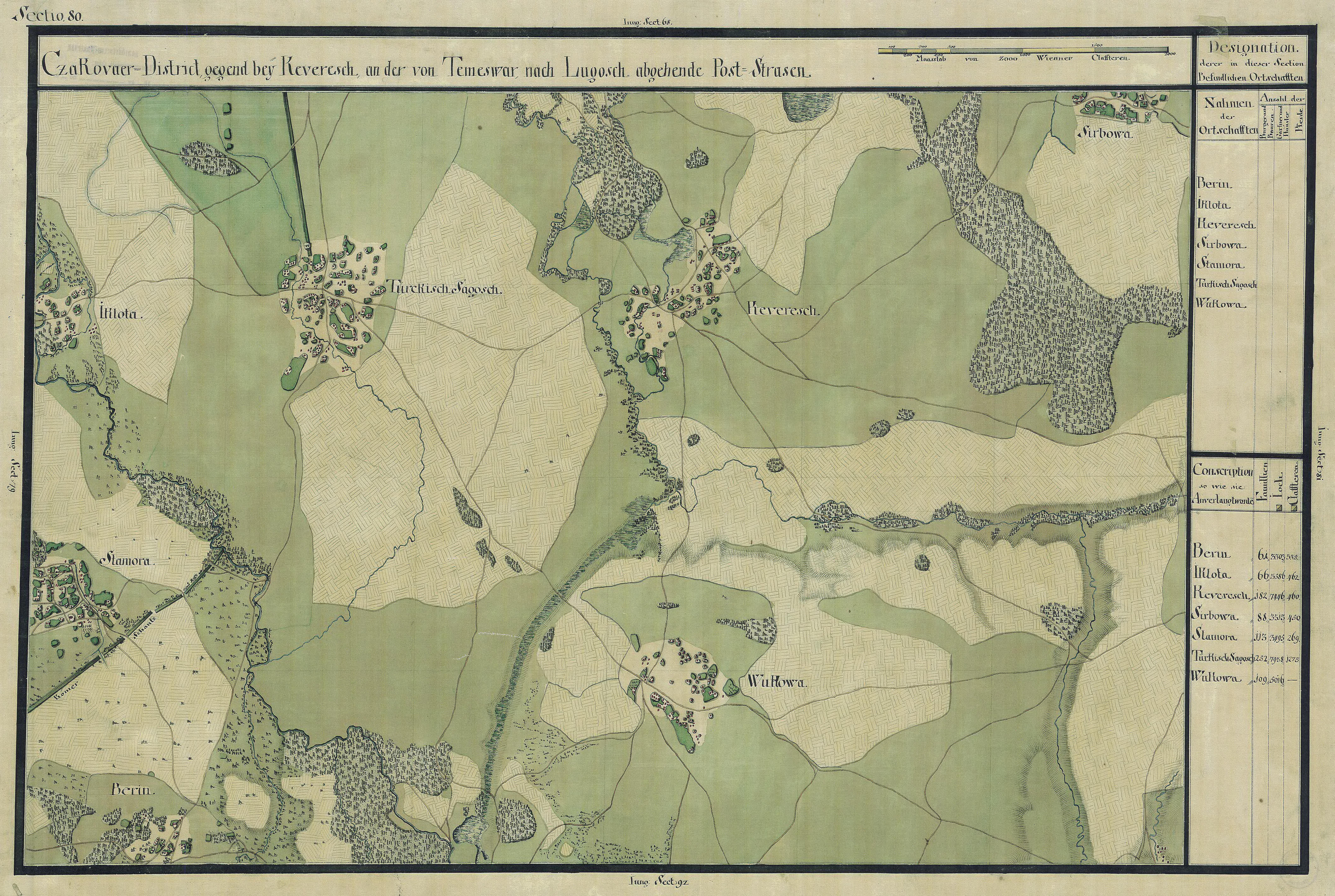 The Banat region in the cadastral maps: Josephinische Landesaufnahme, 1769-72. Josephinische Landaufnahme pg080